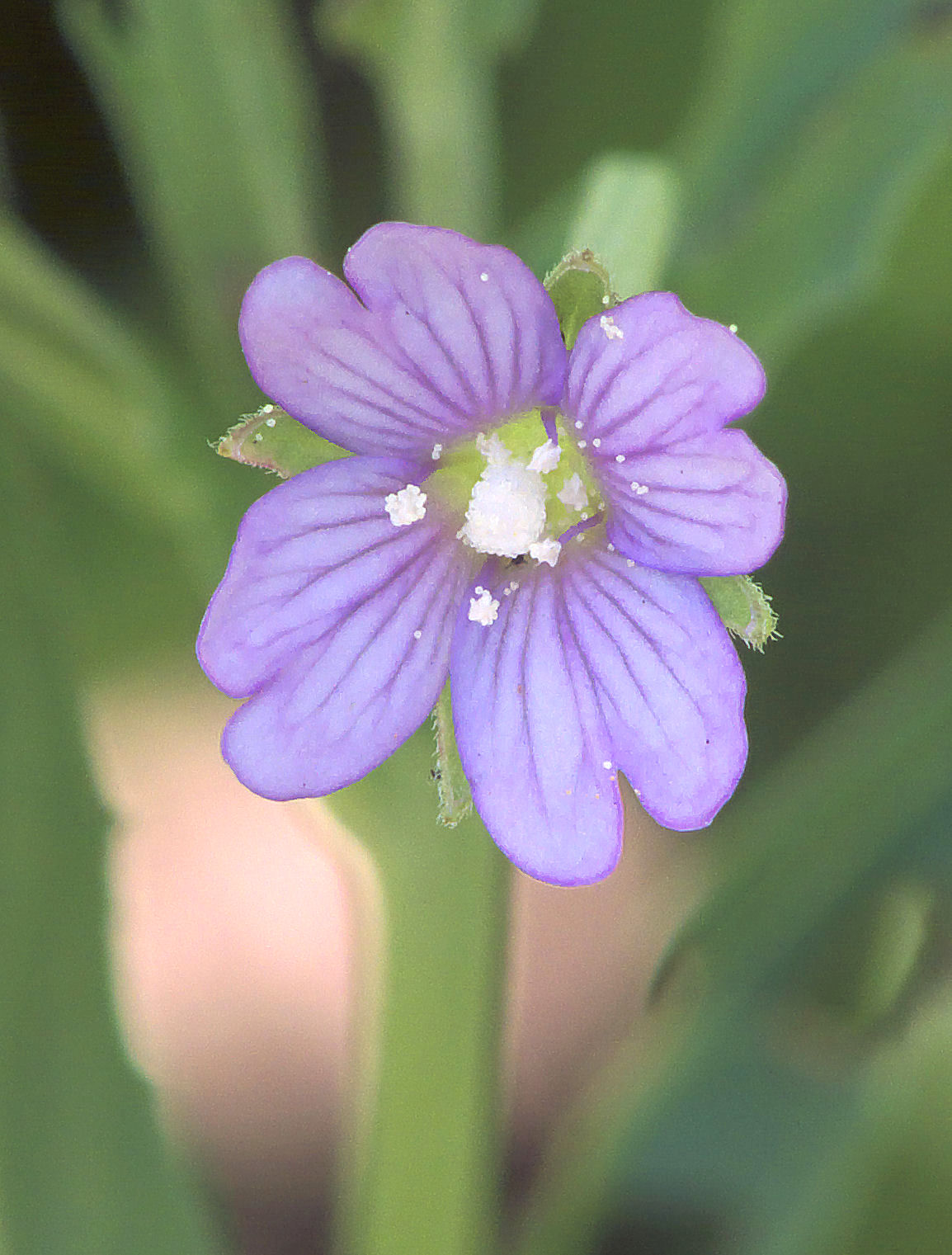 Epilobium tetragonum flower